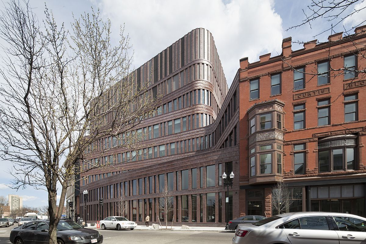 Connection between Curtis buidling and new facade